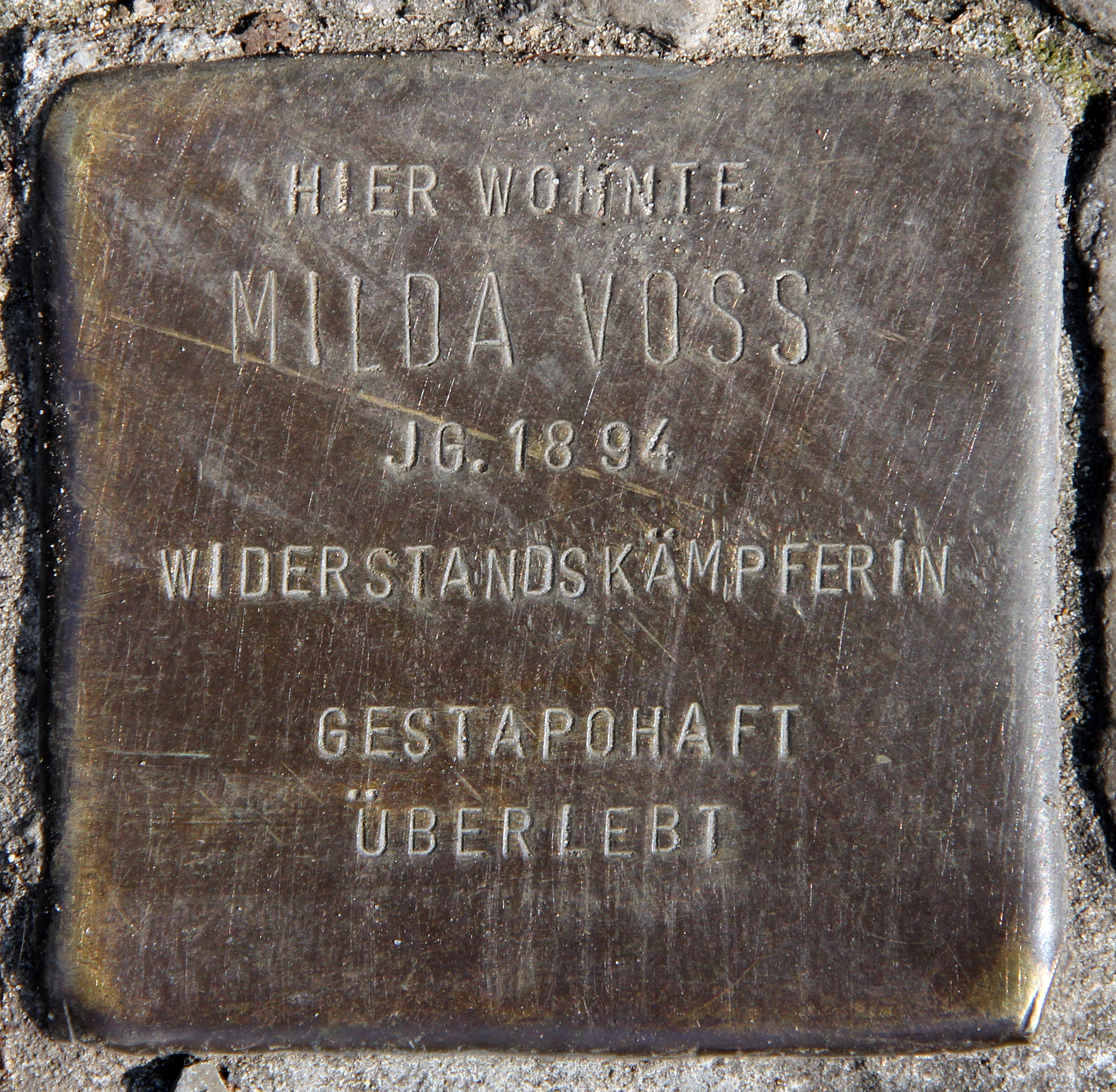 "Stolperstein" (stumbling block), Milda Voß, Ritterstraße 33, Berlin-Kreuzberg, Germany